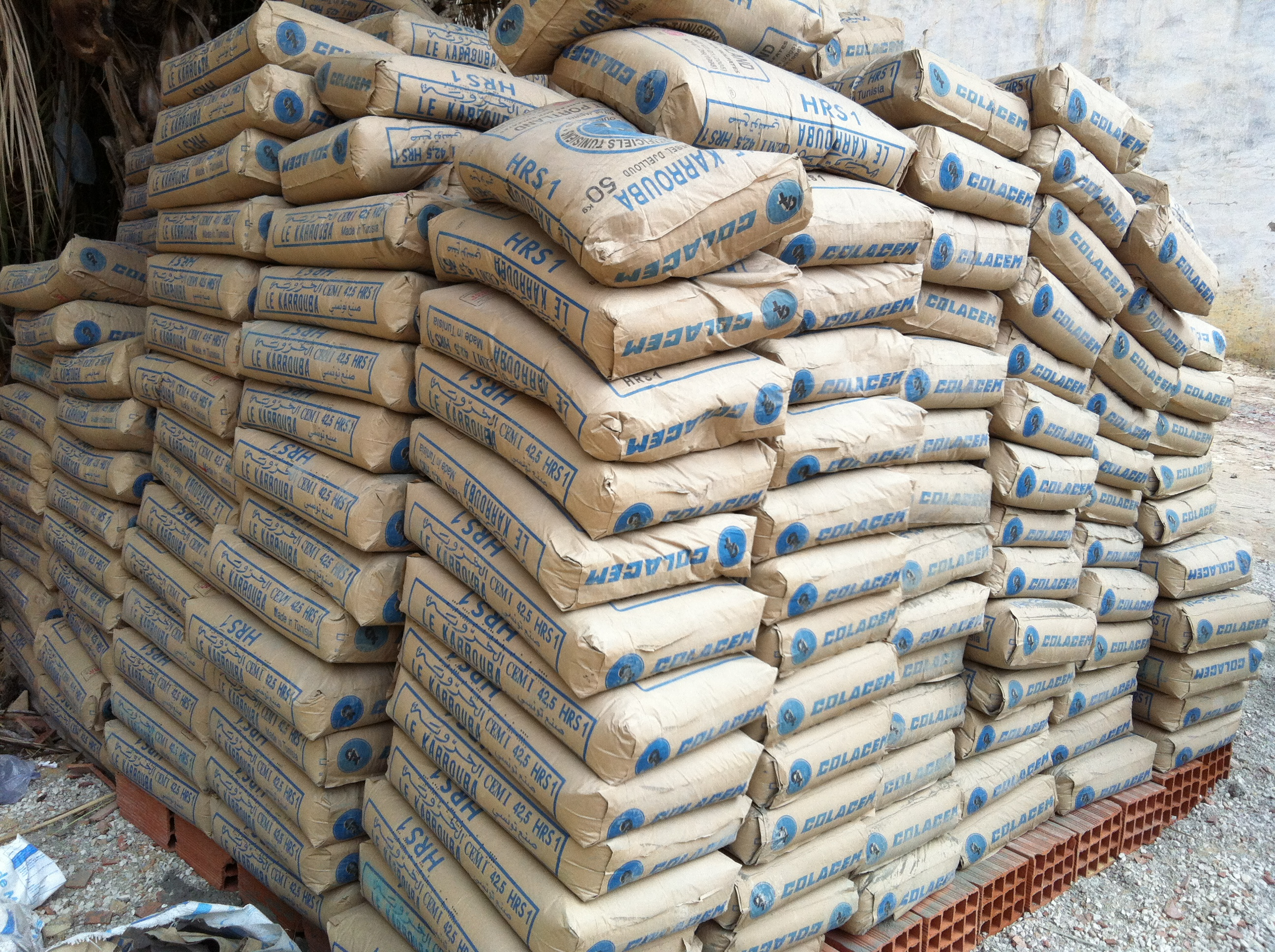 Construction in Tunisia